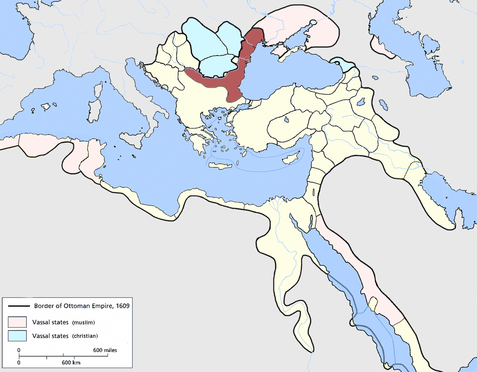 Silistra (Özi) Eyalet, Ottoman Empire (1609). Source: Encyclopedia of the Ottoman Empire at Google Books By Gábor Ágoston, Bruce Alan Masters